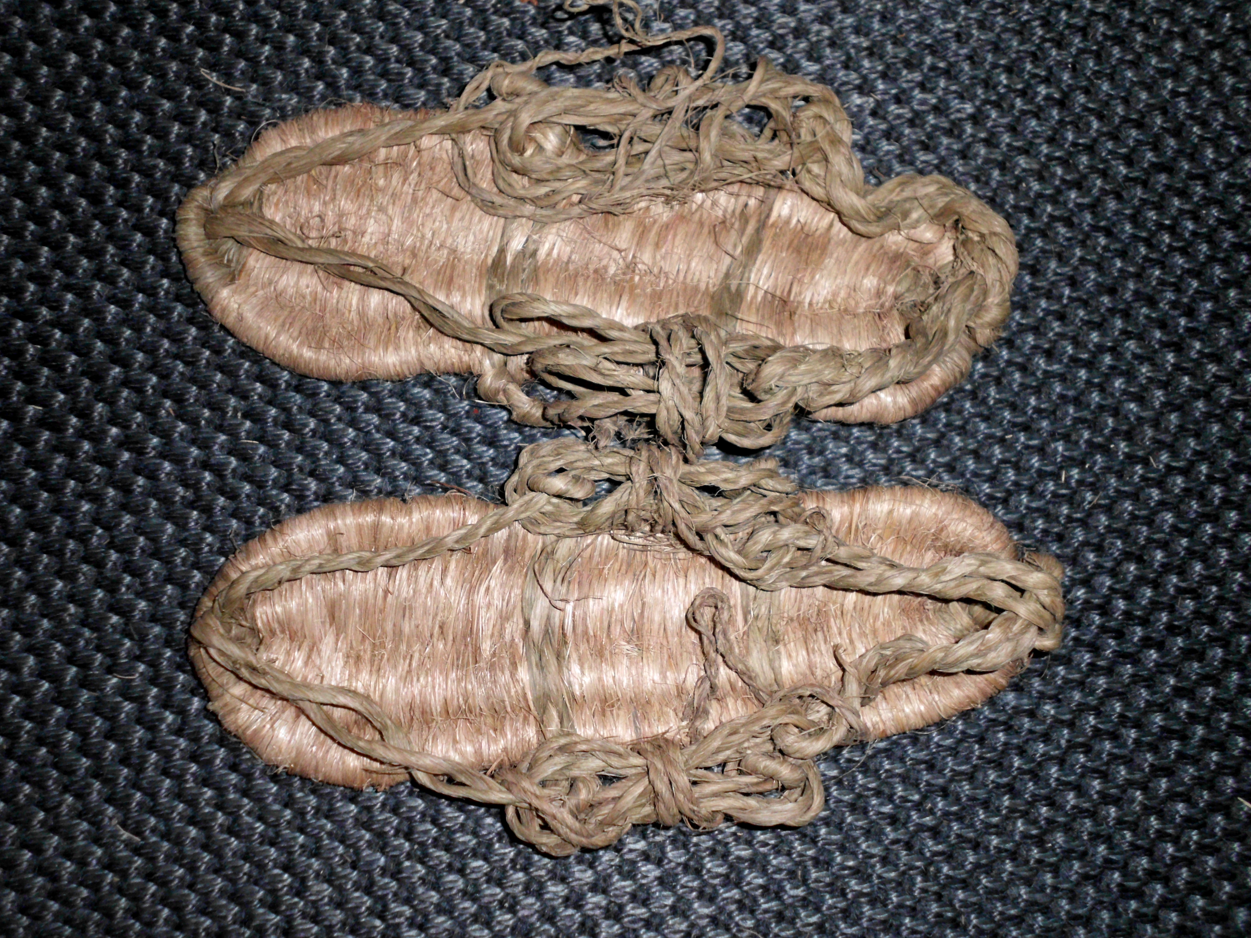 Japanese waraji, woven sandals.